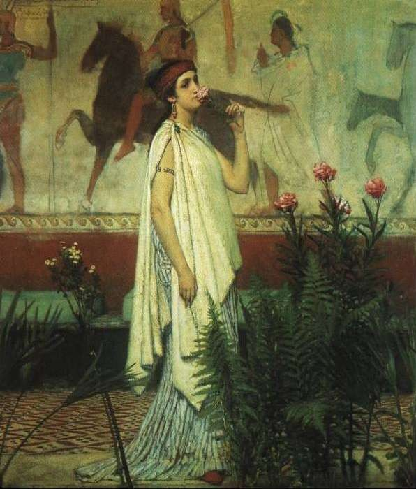 A Greek Woman Sir Lawrence Alma-Tadema - 1869 Private collection Painting - oil on canvas Height: 66.7 cm (26.26 in.), Width: 47.09 cm (18.54 in.)